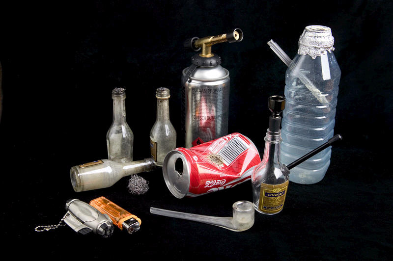 Religion